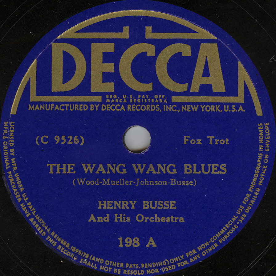 American Decca label from 1934 featuring the orchestra of trumpet star Henry Busse. From the collection of Fredrik Tersmeden, Lund, Sweden. Busse's 1934 re-recording of Wang Wang Blues, one of his earliest hits with Paul Whiteman in 1920. Busse was co-composer of this tune.